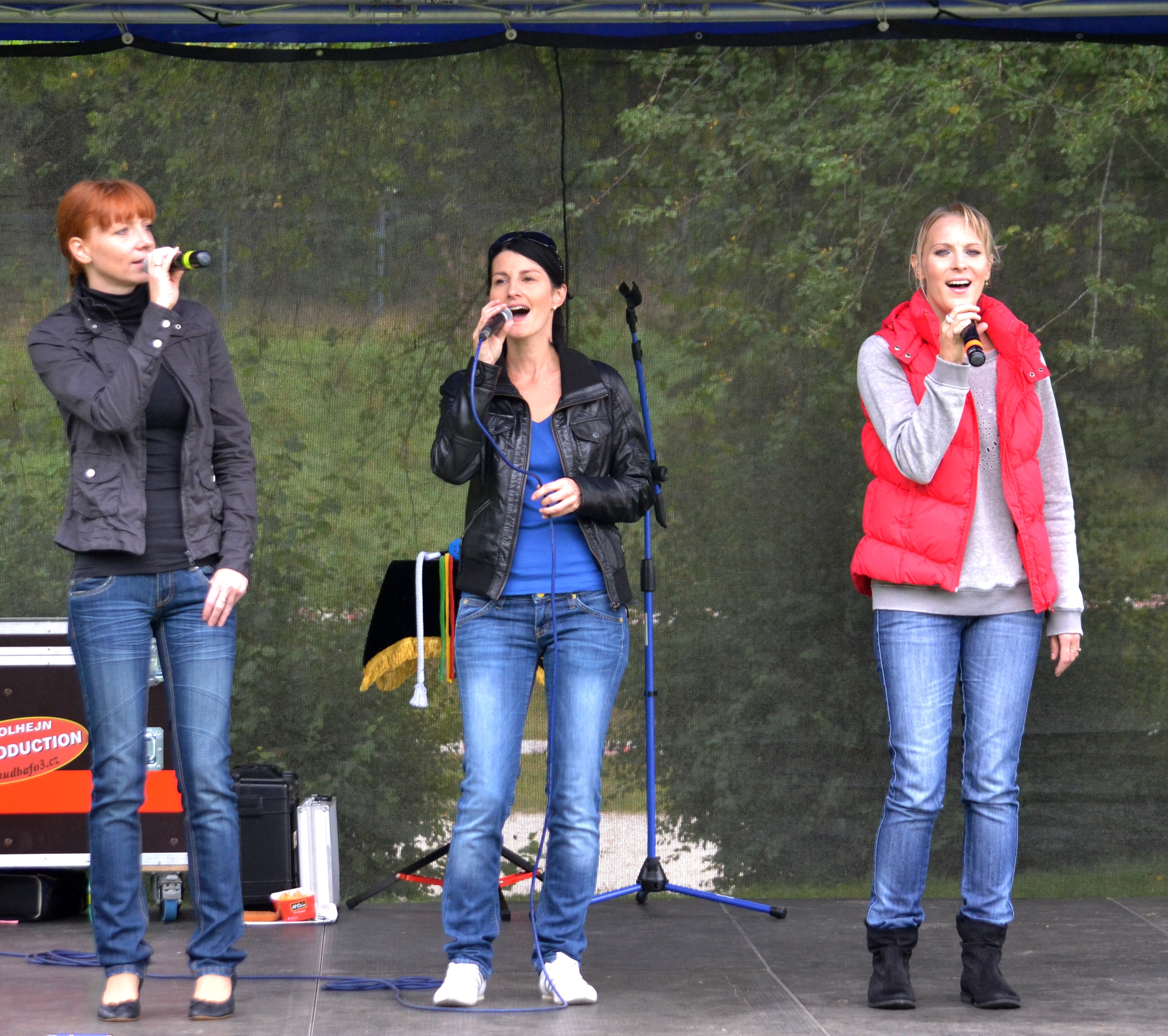 HOLKI, Czech girls vocal band (2014) - from left Radana Labajová, Nikola Šobichová and Kateřina Brzobohatá